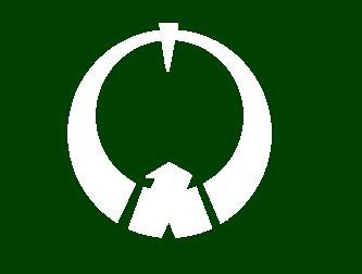 Flag of Nasu Tochigi